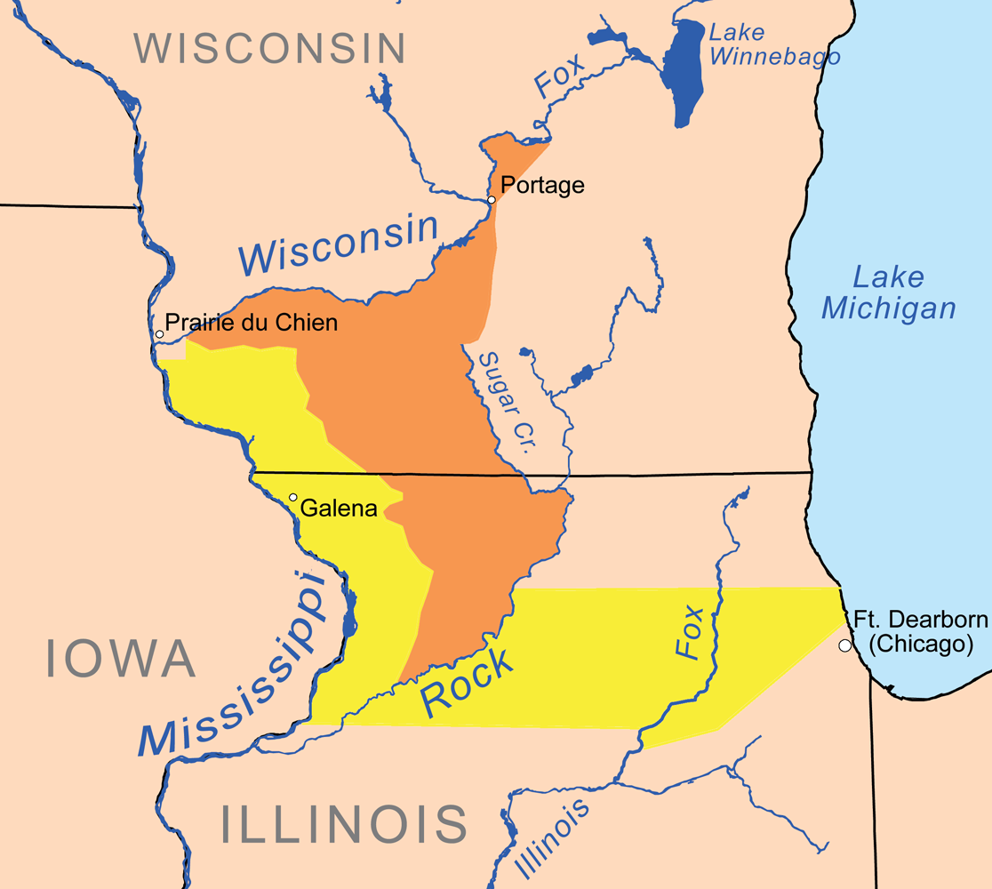 Map showing lands ceded in the 1829 Treaty of Prairie du Chien by the Chippewa, Ottawa, and Potawatomi tribes in yellow and the Winnebago in orange.